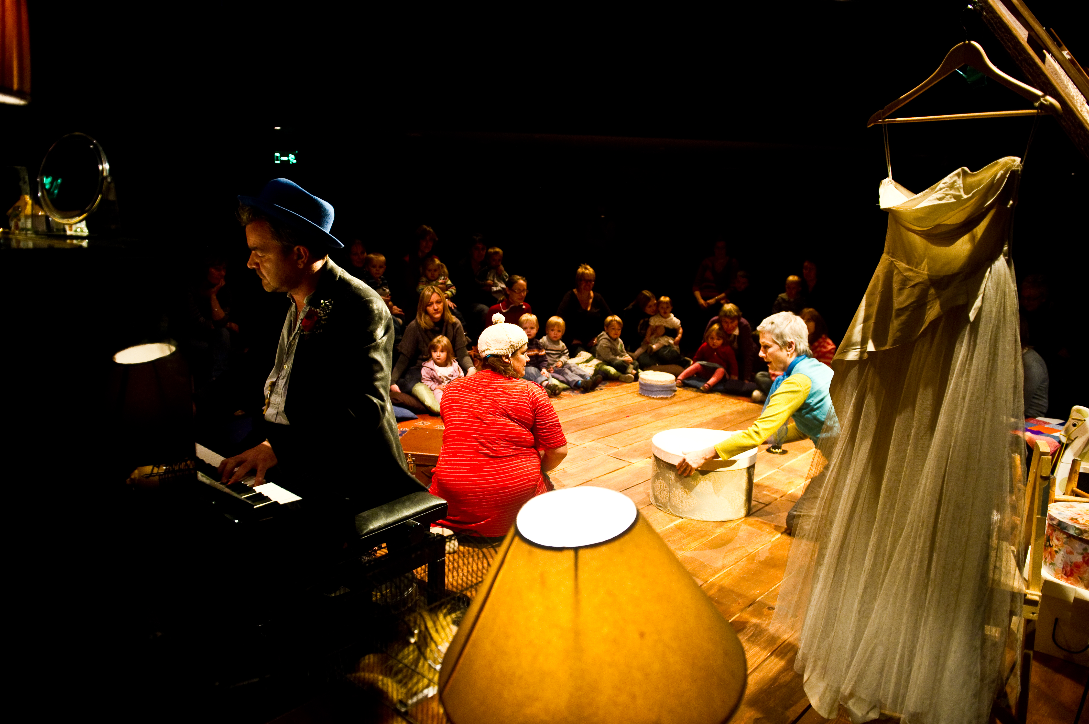 Production image from "The Attic", produced by Starcatchers. October 2010. Image taken at the Byre Theatre, St Andrews, Scotland. Theatre for Early Years